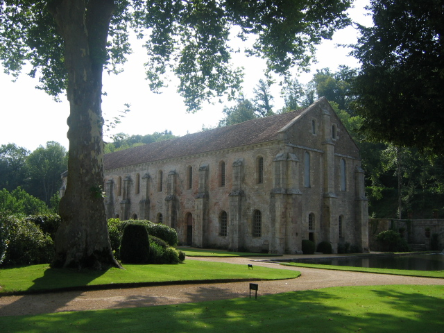 Abbaye de Fontenay, France : forge